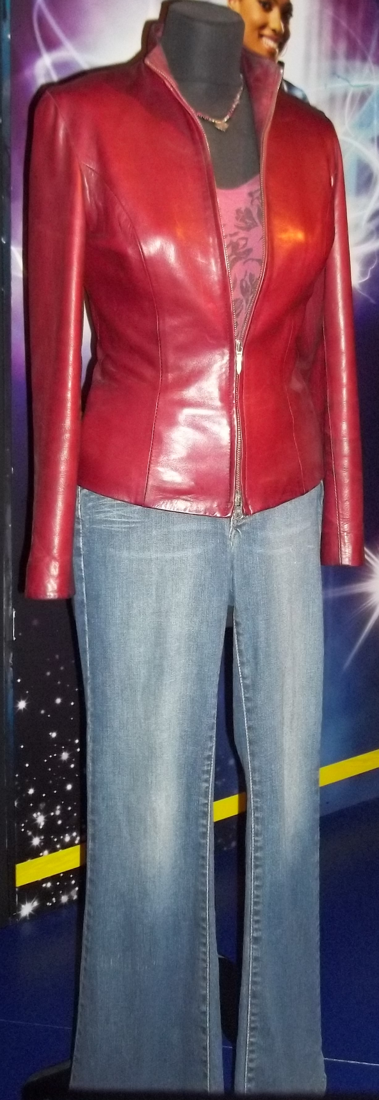 Martha Jones Doctor Who Experience